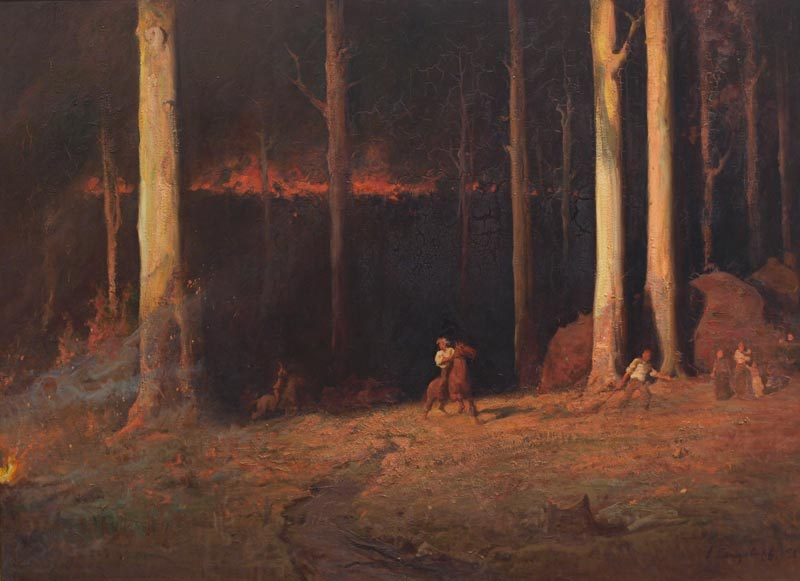 Bushfires ravaged Gippsland in the summer of 1897–98, covering an area of about 1600 square kilometres. The worst day, 1 February 1898, was named ‘Red Tuesday’, recalling that other day of horror so memorably recorded by William Strutt in his Black Thursday, February 6th. 1851. John Longstaff visited Gippsland later in February 1898 to view the fires at first hand and collect material for a major picture. Gippsland, Sunday night, February 20th, 1898 was exhibited in a dramatic installation in his Melbourne studio in August 1898. A row of kerosene-lamp ‘footlights’ provided the illumination, and the effect was said to be ‘lurid and startlingly realistic’.